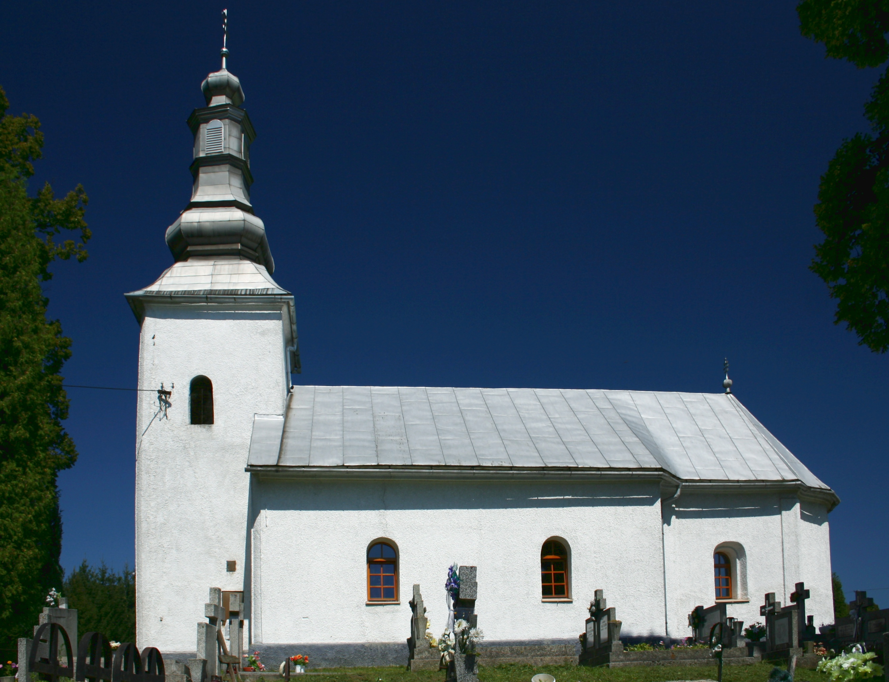 cerkiew in Krásny Brod (Slovakia)